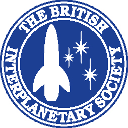 The British Interplanetary Society Logo.